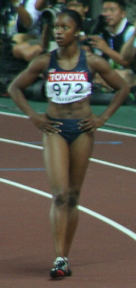 World Athletics Championships 2007 in Osaka - after an extremely tight 100 metres final, the winner is still unknown. Picture includes Carmelita Jeter (no. 972, finishing 3rd in 11.02)